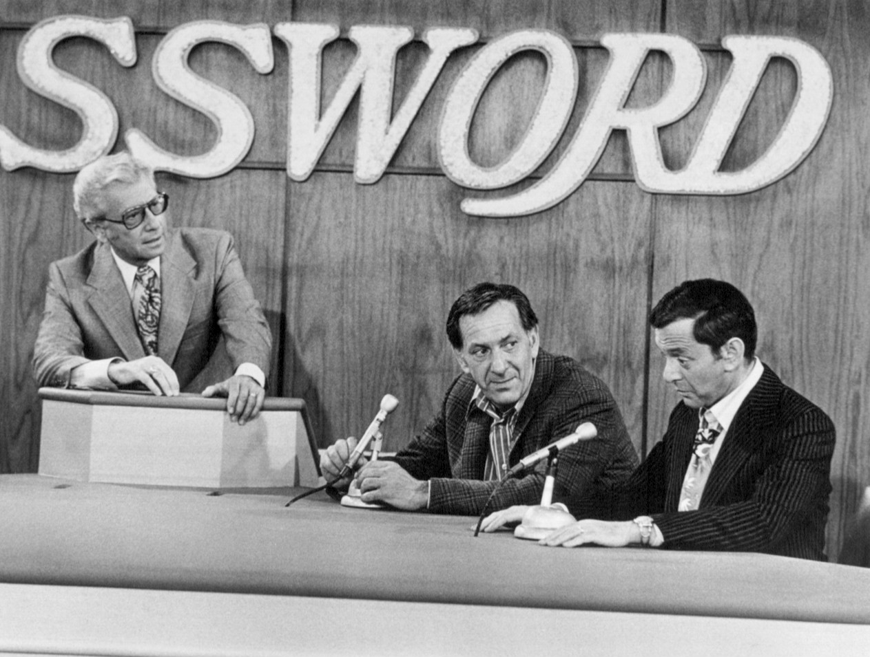 Photo of Allen Ludden, Jack Klugman as Oscar and Tony Randall as Felix from the television program The Odd Couple. In this episode, Oscar and Felix appear on the television game show Password.